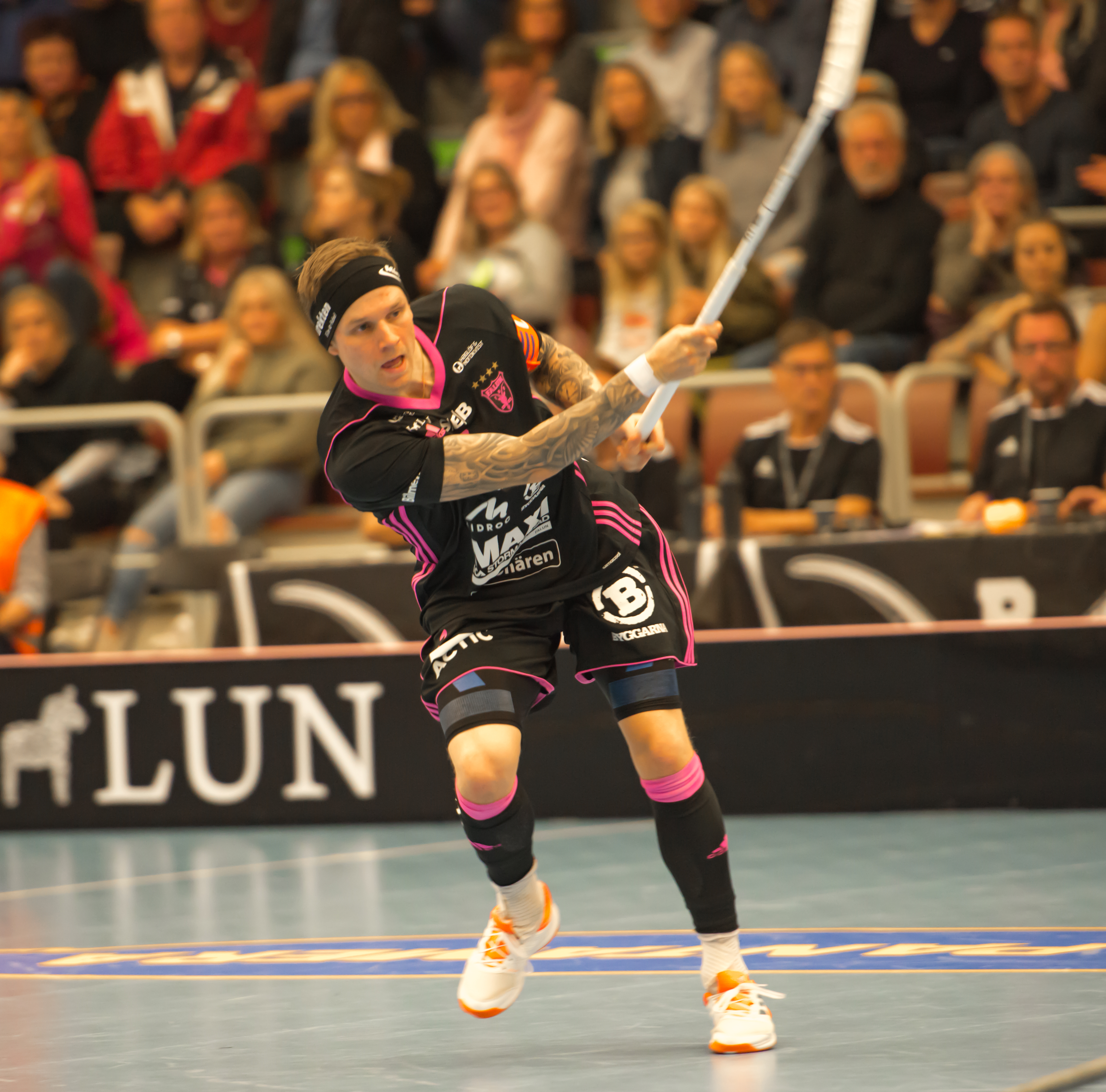 SSL game between Falun and Storvreta. Falun win by 6-5